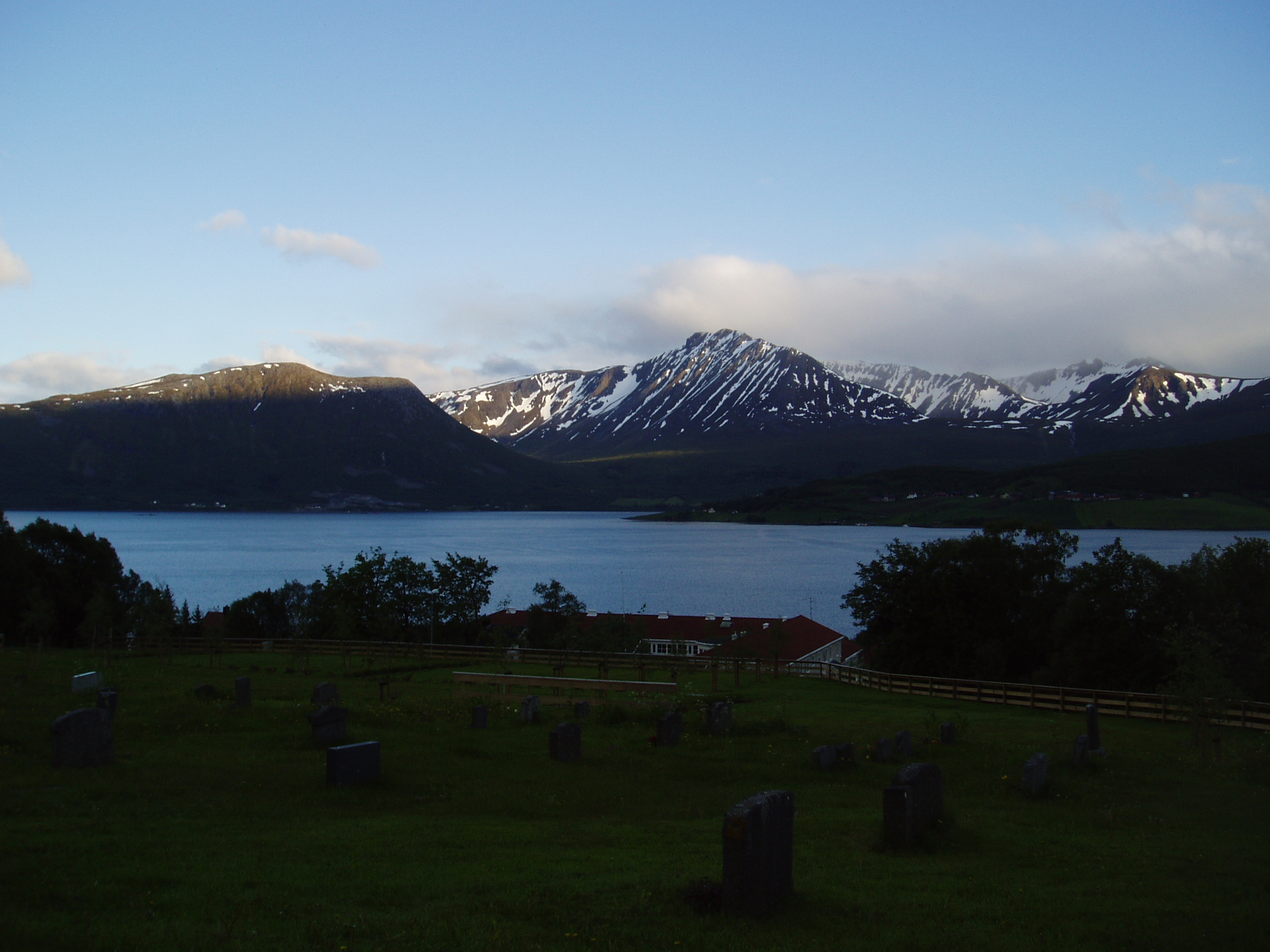 View of Kvæfjord from Kvæfjord church.